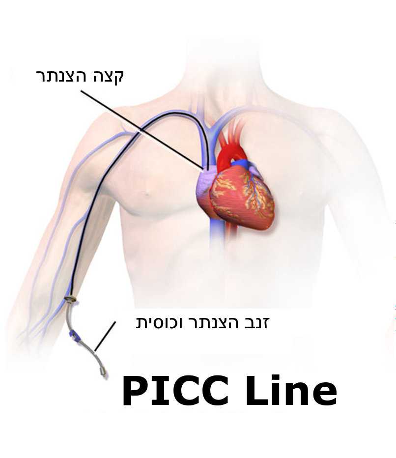 PICC Line